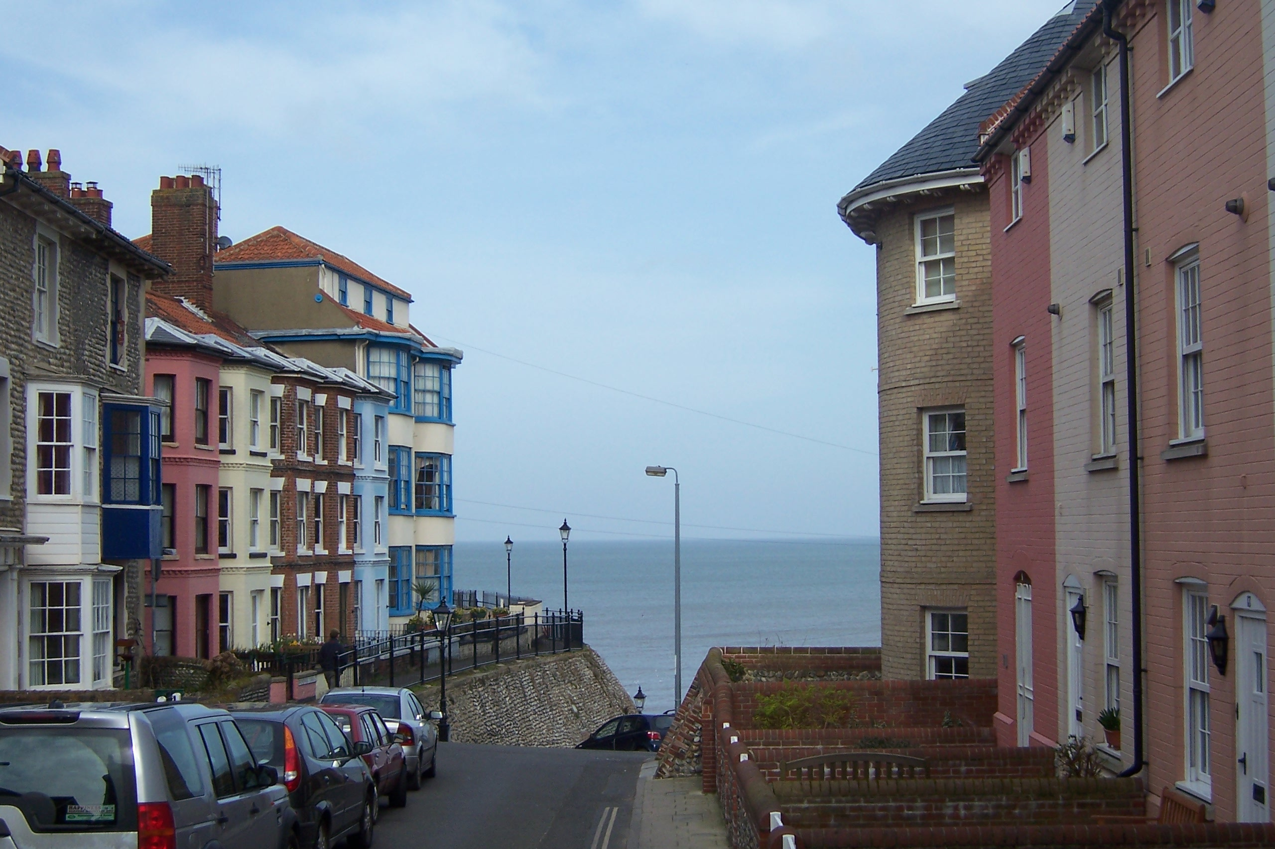 Cromer